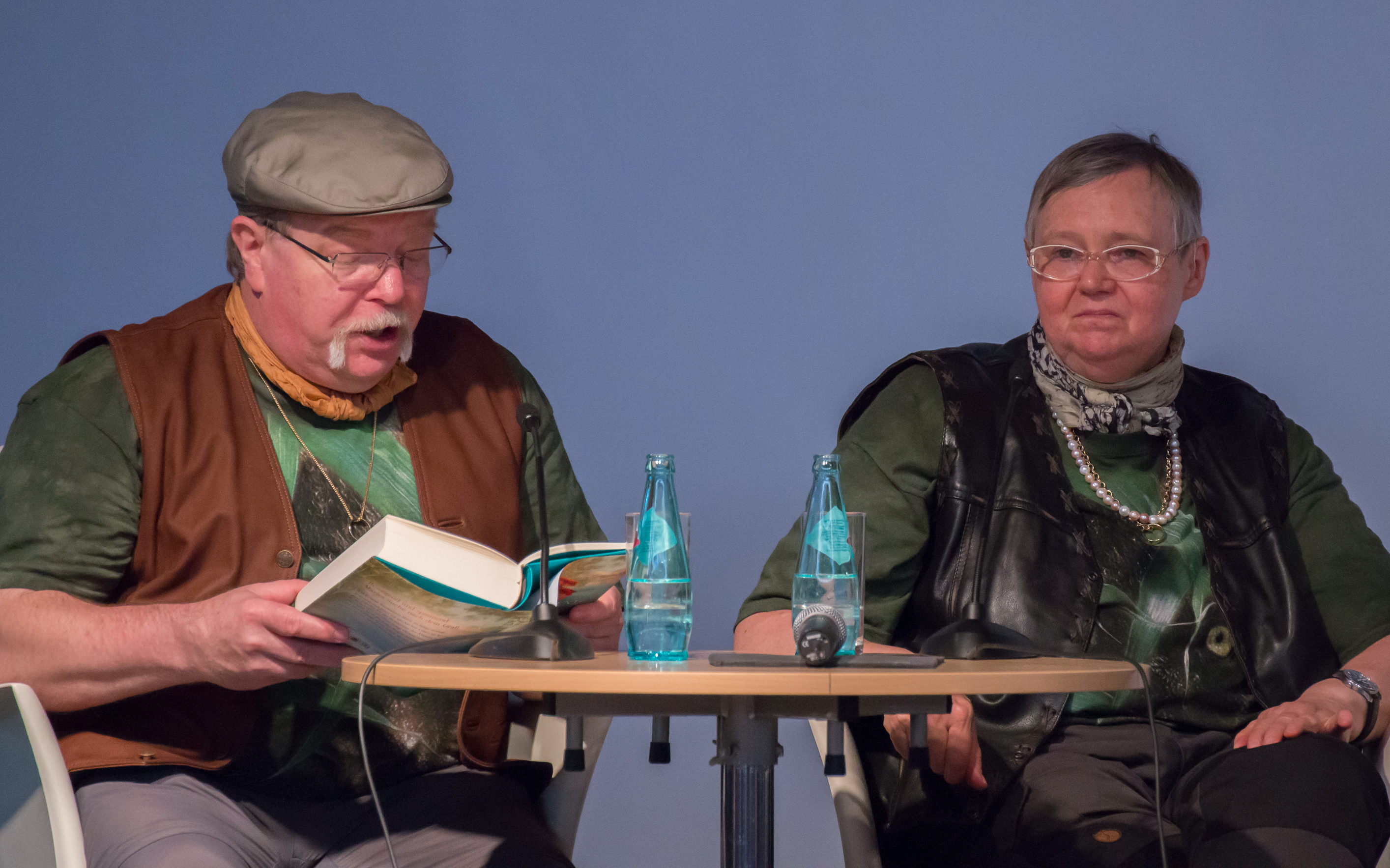 The writer couple with the pseudonyme Iny Lorentz, Iny Klocke and Elmar Wohlrath at the Frankfurt Book Fair 2014